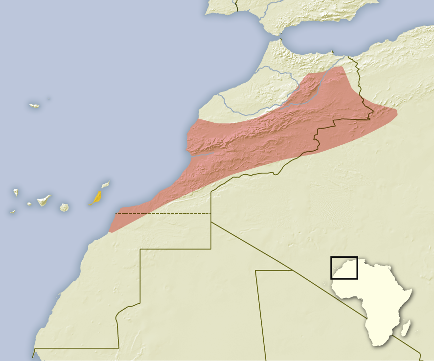 Distribution map of the Barbary ground squirrel; red: native, yellow: introduced